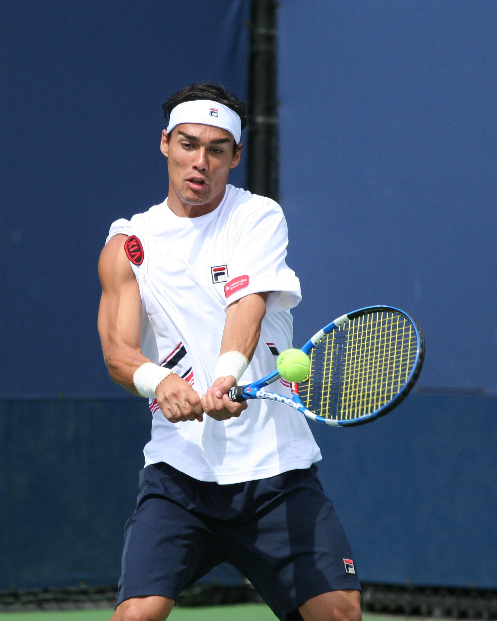 U.S. Open Thursday, Sept. 3, 2009